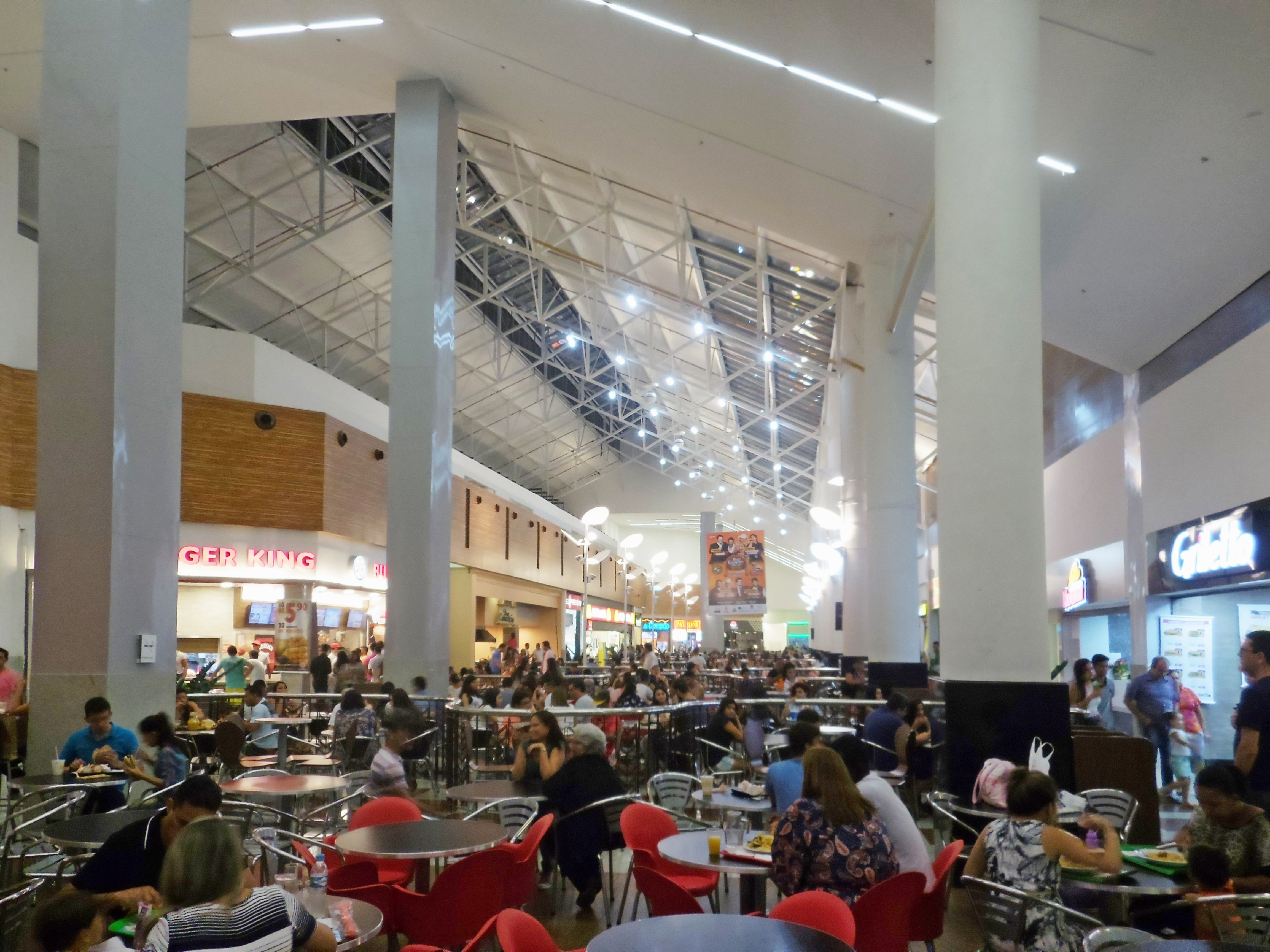 Food court of the Shopping Vale do Aço, in Ipatinga, Minas Gerais, Brazil.